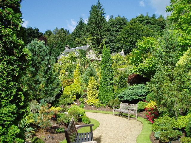 Colzium Estate Walled Garden. A beautiful estate which is a country park in all but name. It is situated in the Kelvin valley just outside Kilsyth. The estate also includes a house, pond, arboretum, the Battle of Kilsyth Memorial as well as the ruins of the ancient Colzium castle.